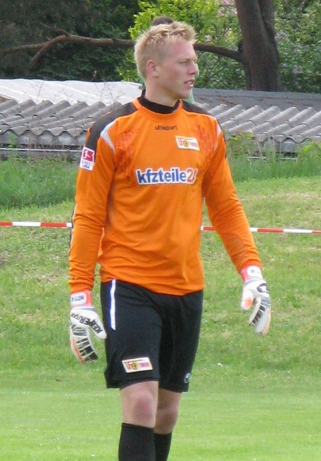 The german football player Marcel Höttecke during a game of 1. FC Union Berlin.